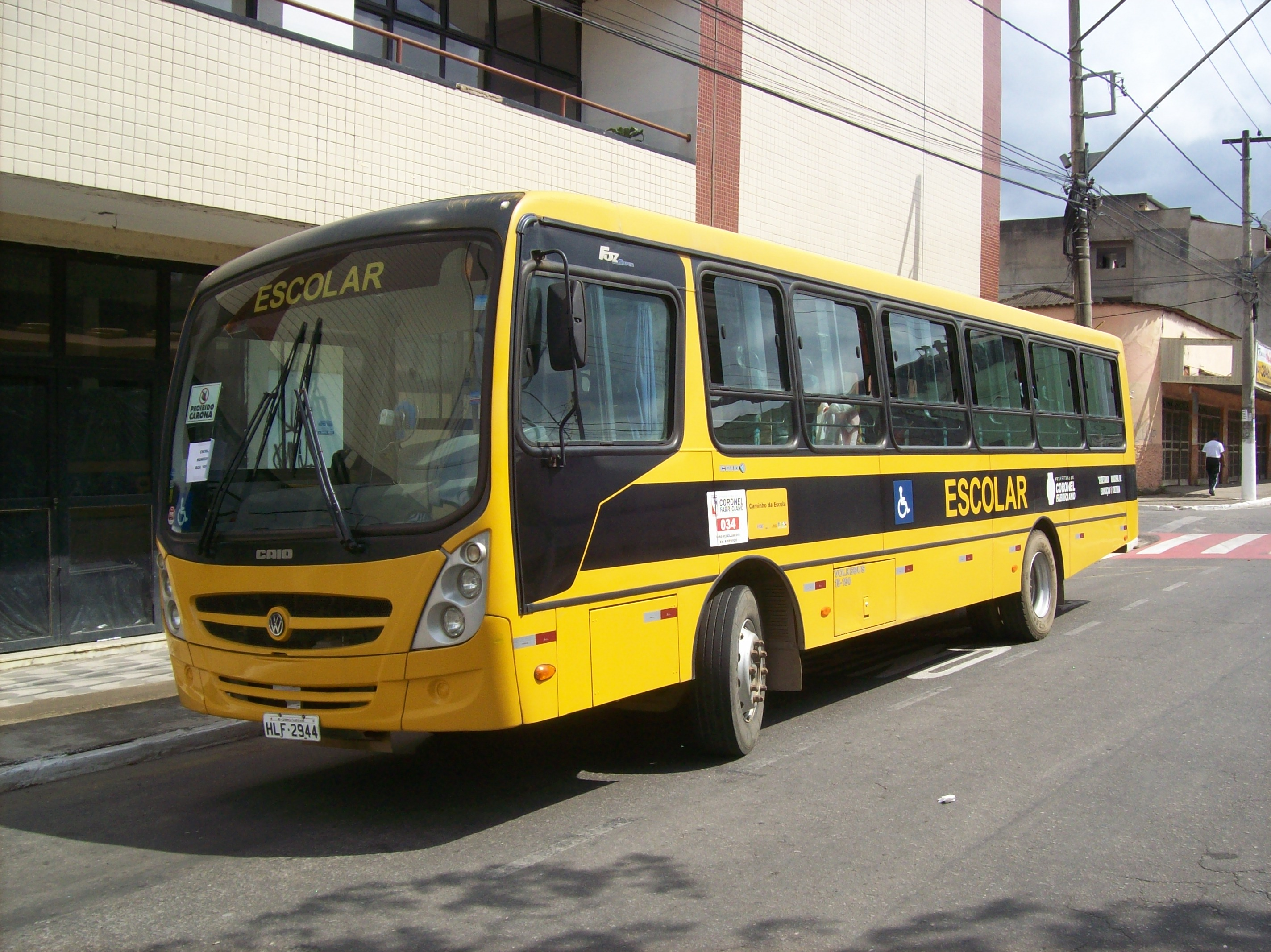 CAIO Foz Super school bus with Volkswagen Volksbus 18-190 chassis of the prefecture of Coronel Fabriciano, Minas Gerais, Brazil.